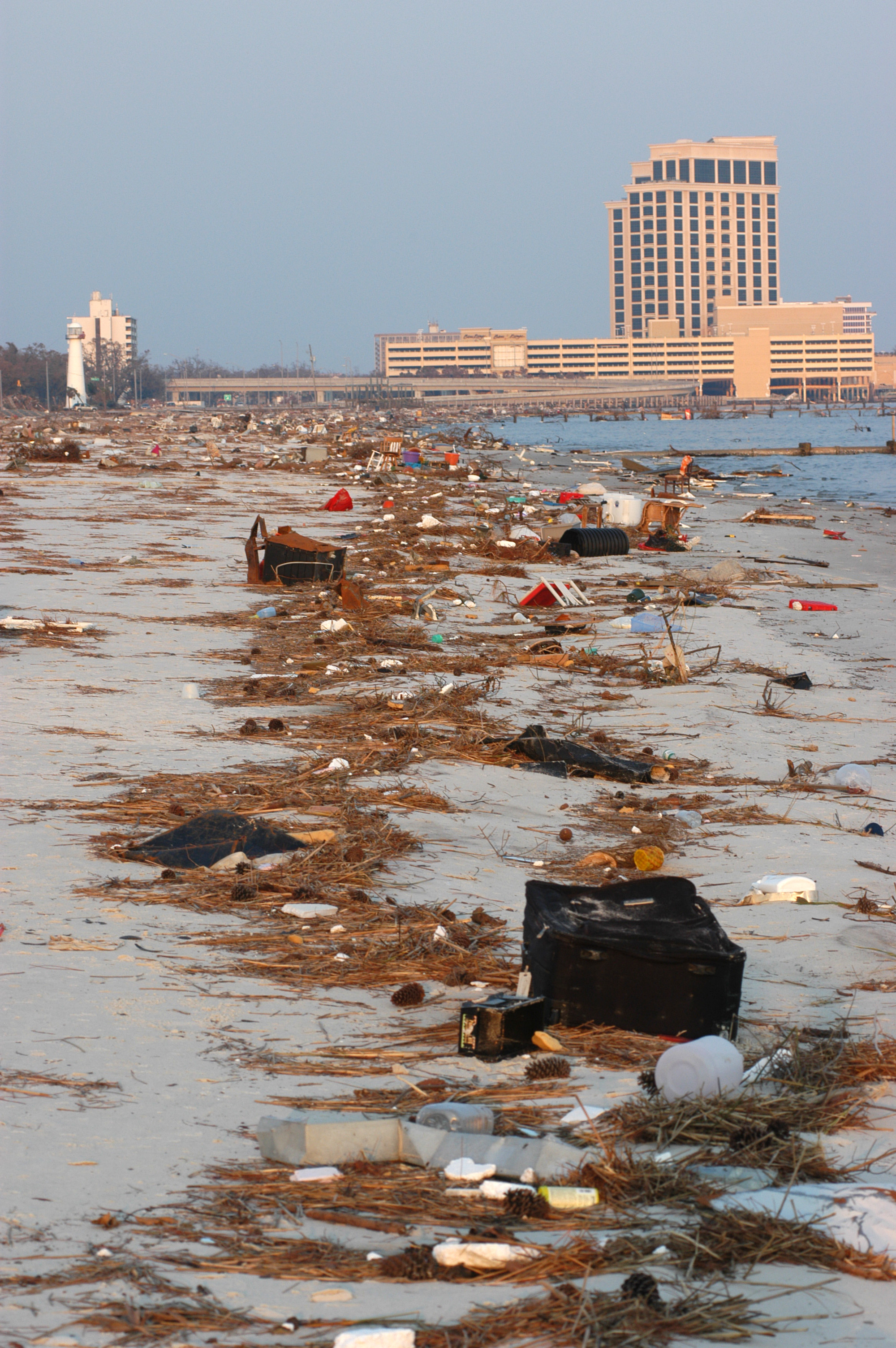 Biloxi, Miss., September 2, 2005 -- Debris left by receding waters on the beach in Biloxi, Miss. Hurricane Katrina caused extensive damage on the Mississippi gulf coast. FEMA/Mark Wolfe